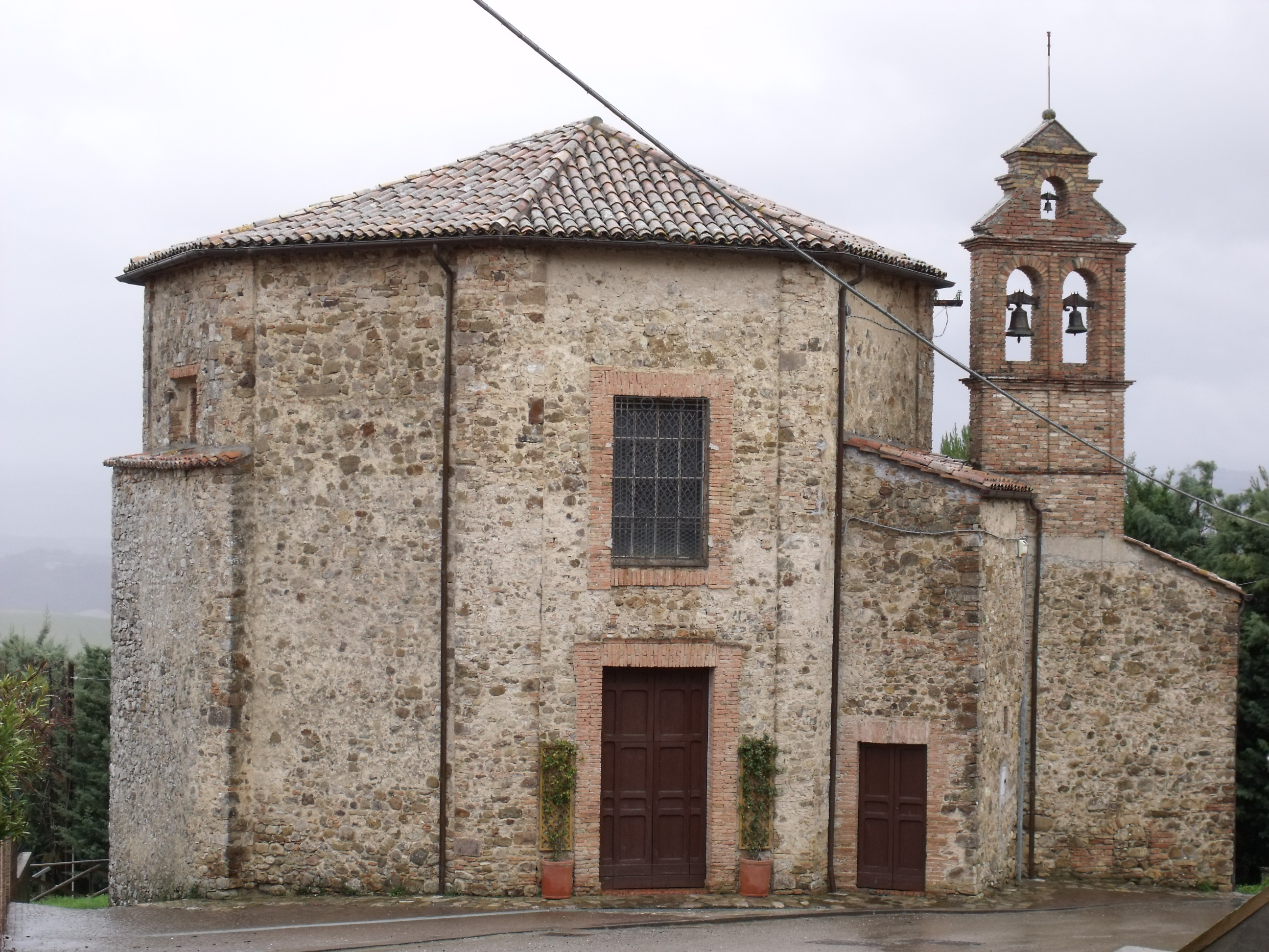 Church Madonna dell’Acqua in Allerona, Umbria, Italy